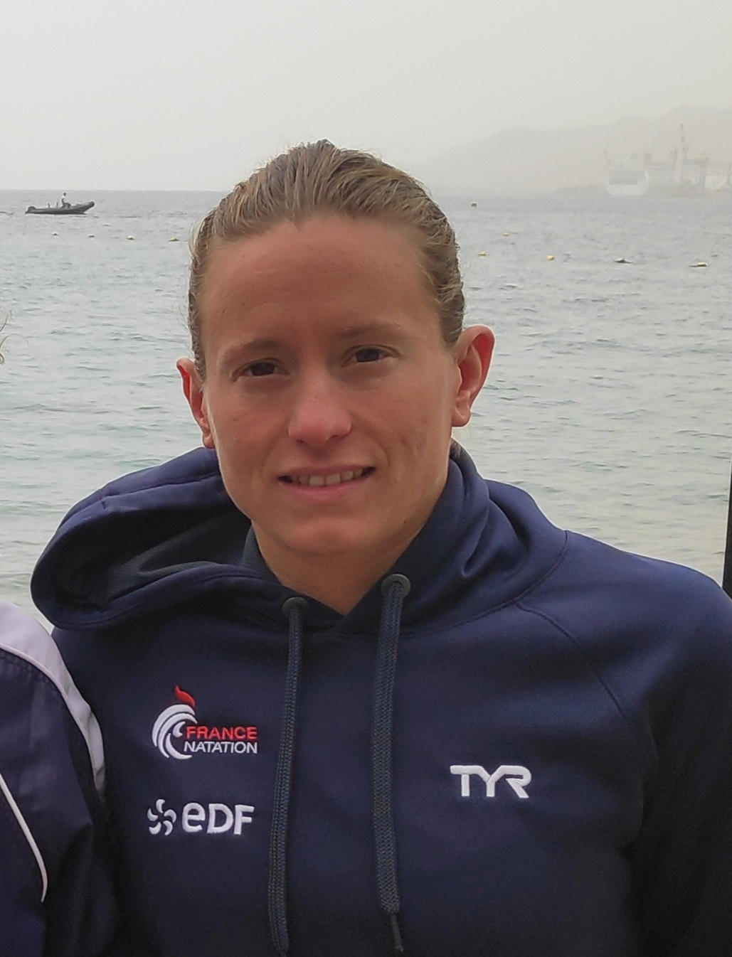 Aurélie Muller, Vice champion of Women's 10 km, LEN Open Water Cup - Eilat Israel, March 31, 2019